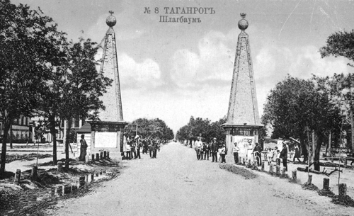 City bar in Taganrog. Photo the begin of 20th century. Source by Museum of Taganrogs Regional Studies photofiles.